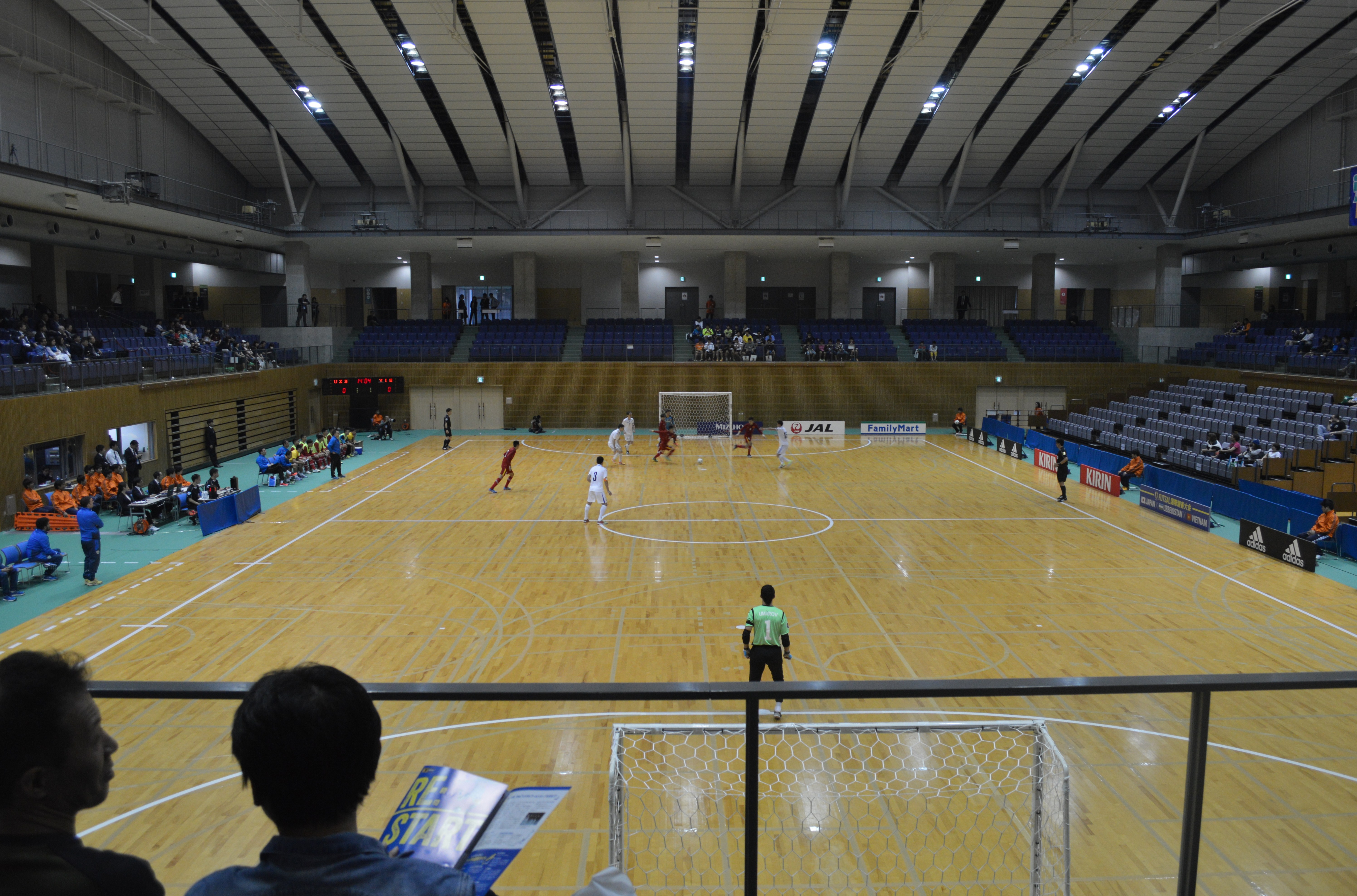 2016-04-23, Futsal International Friendly Tournament, Futsal Vietnam national team vs Futsal Uzbekistan national team, in Kariya, Aichi prefecture, Japan.